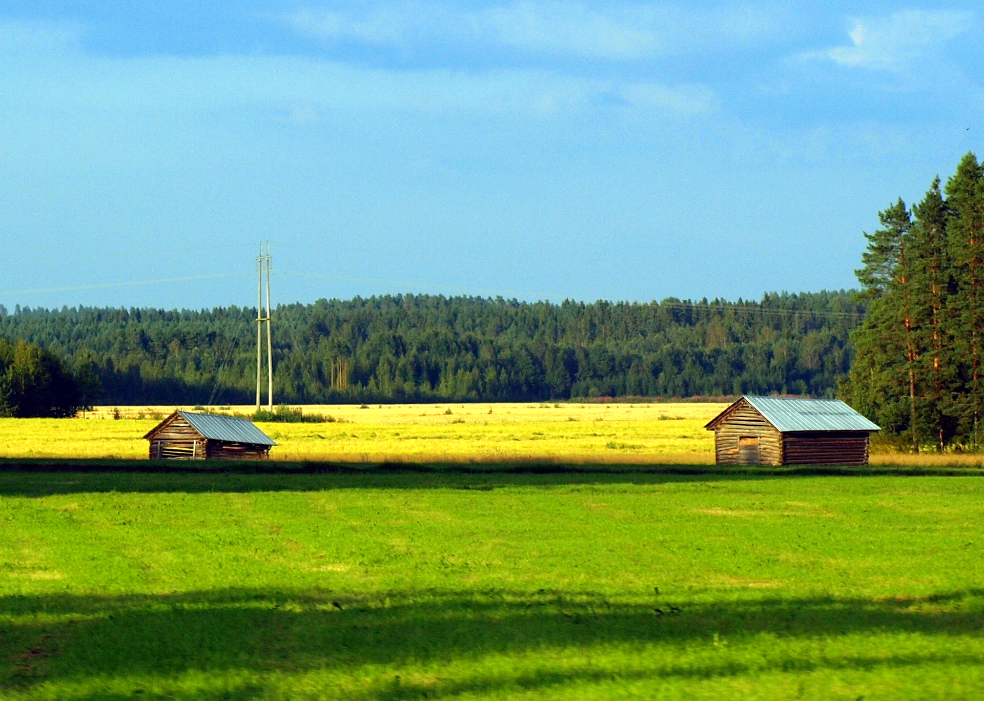 Two field barns in Finland, 2014.